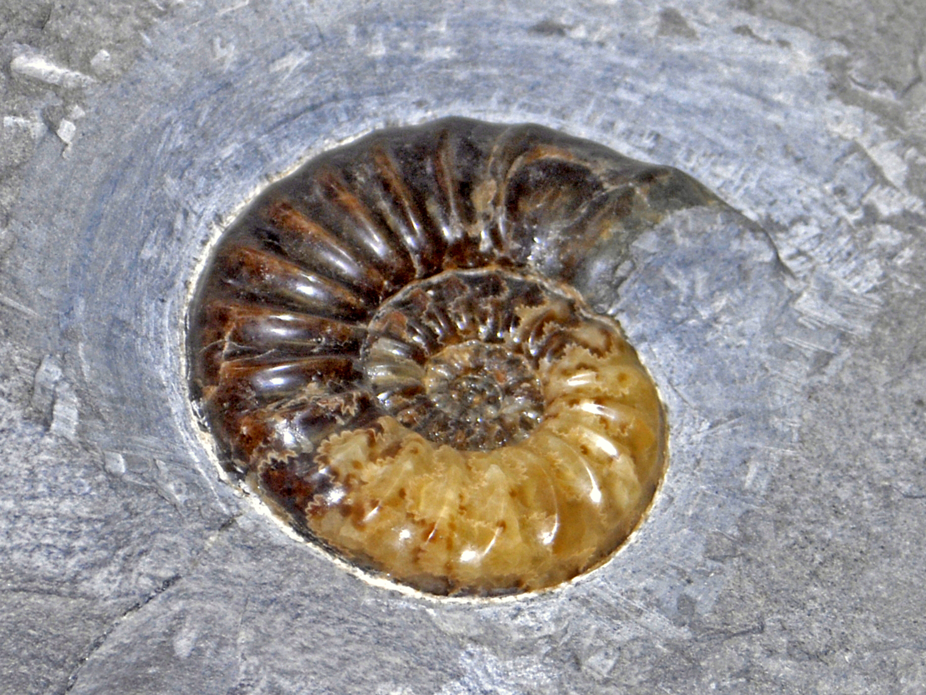 Fossil of Asteroceras obtusum from Lyme Regis, on display at Museo di Scienze Naturali Enrico Caffi, Bergamo